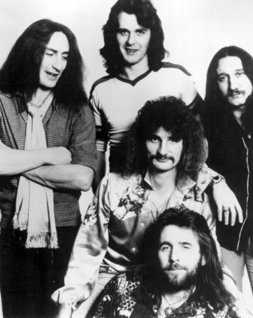 Publicity photo of the musical group Uriah Heep.